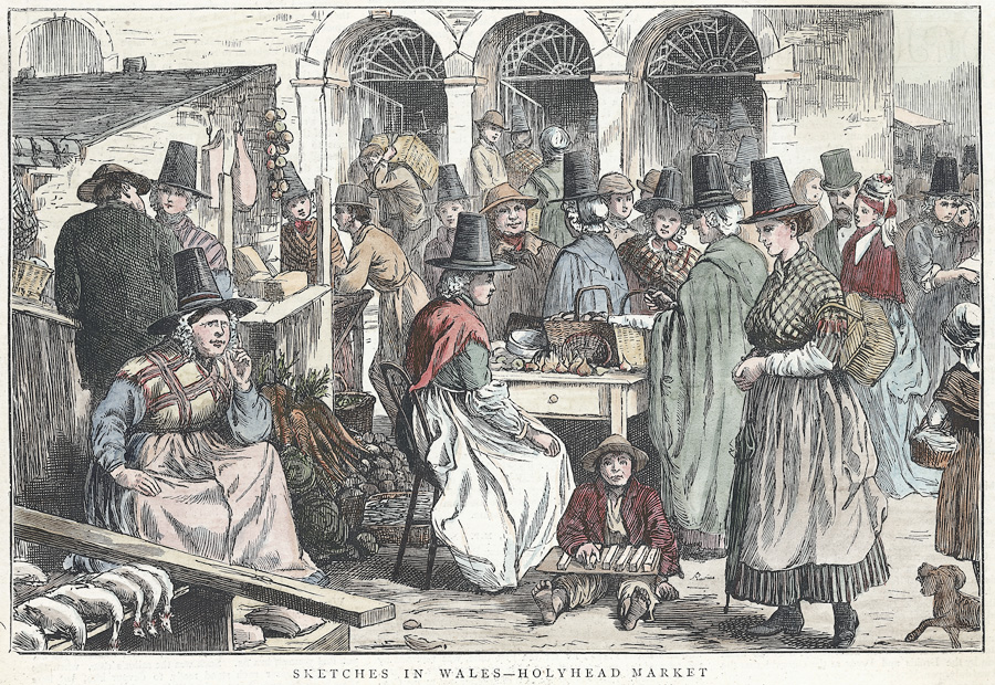 View of bustling market, including activities, stalls and individuals in Welsh dress.